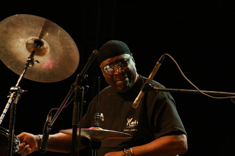 Rashied Ali